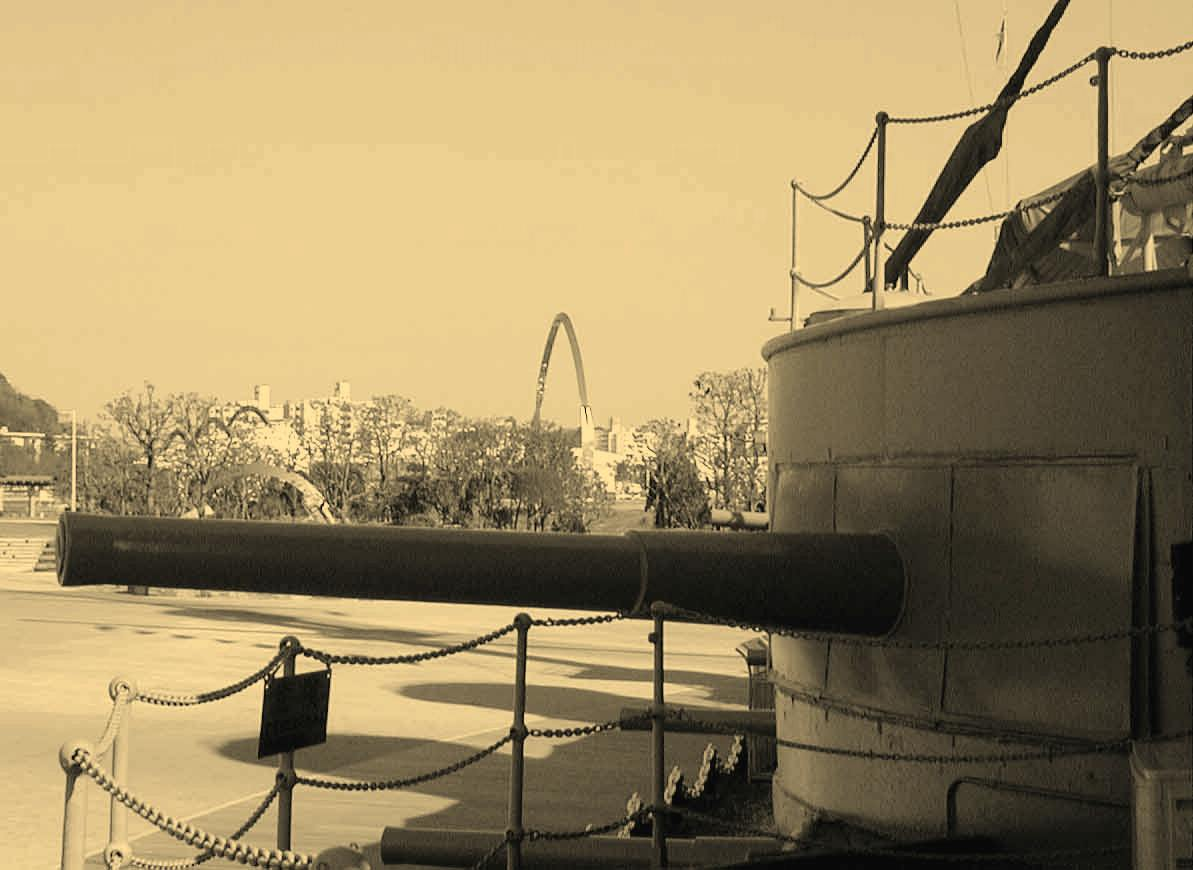 Type 41 6-inch (152 mm)/40-caliber naval gun, on Japanese battleship Mikasa, Yokosuka, Japan.